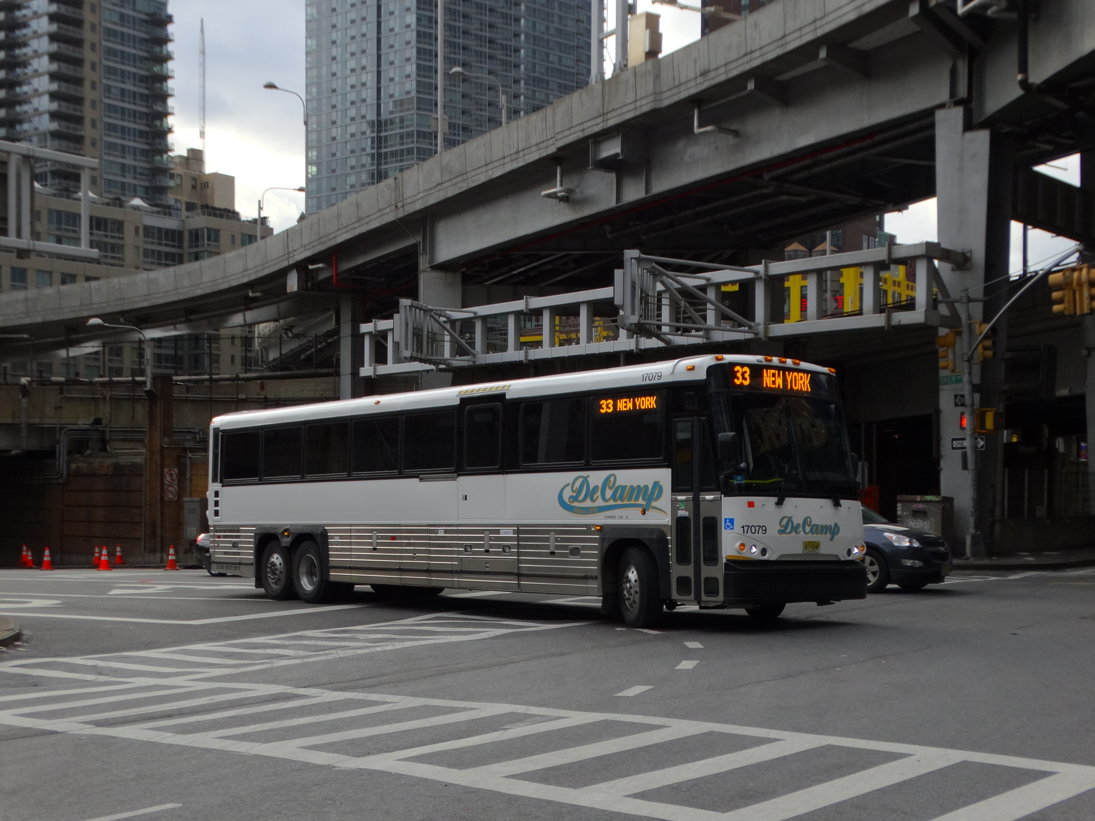 Route 33 #17079 @ Dyre Avenue & W. 40th Street